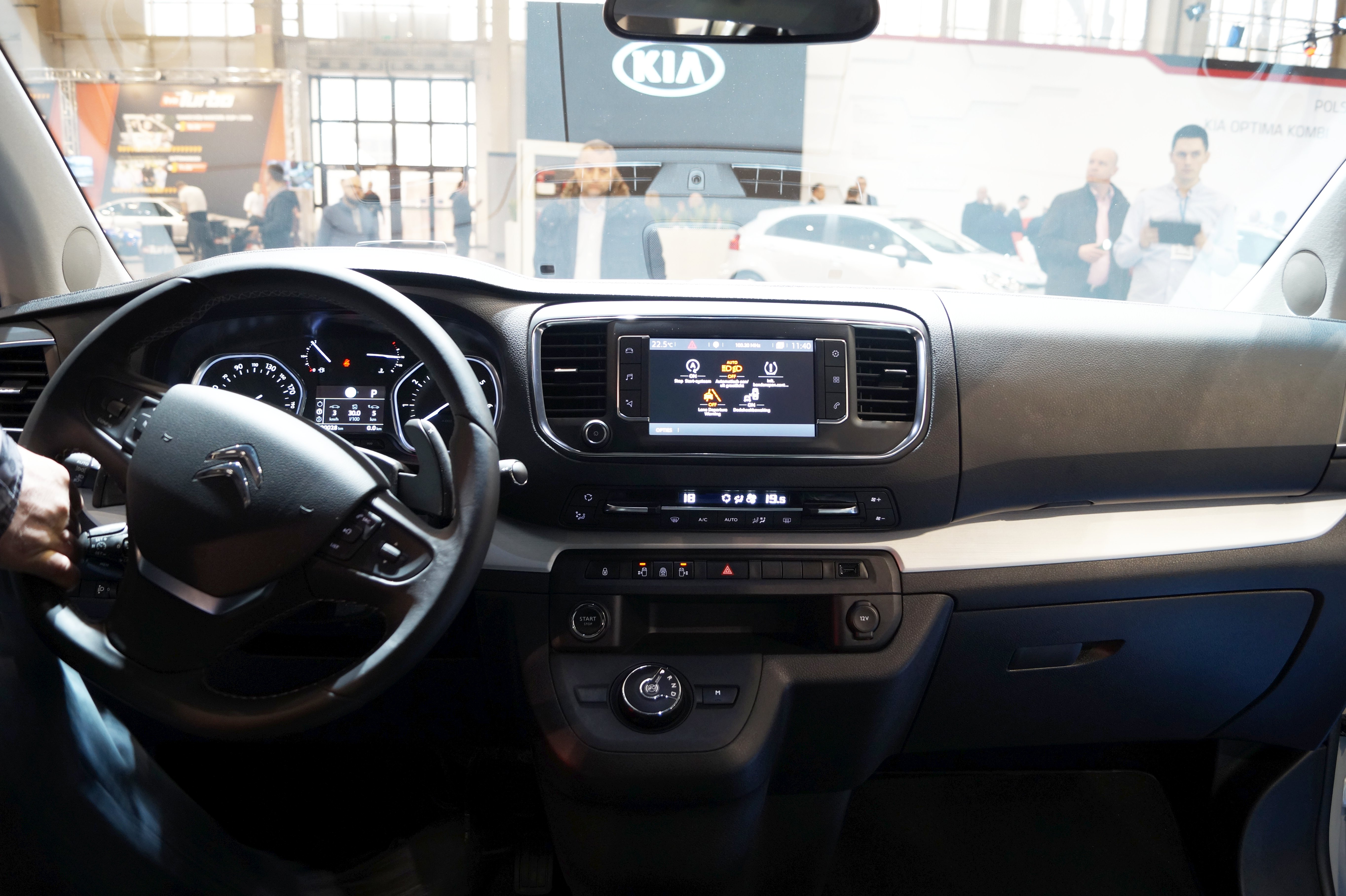 The making of this document was supported by Wikimedia Polska Association, within Wikigrant no. WG 2016-10. Wnętrze Citroëna Spacetourer na Motor Show Poznań 2016